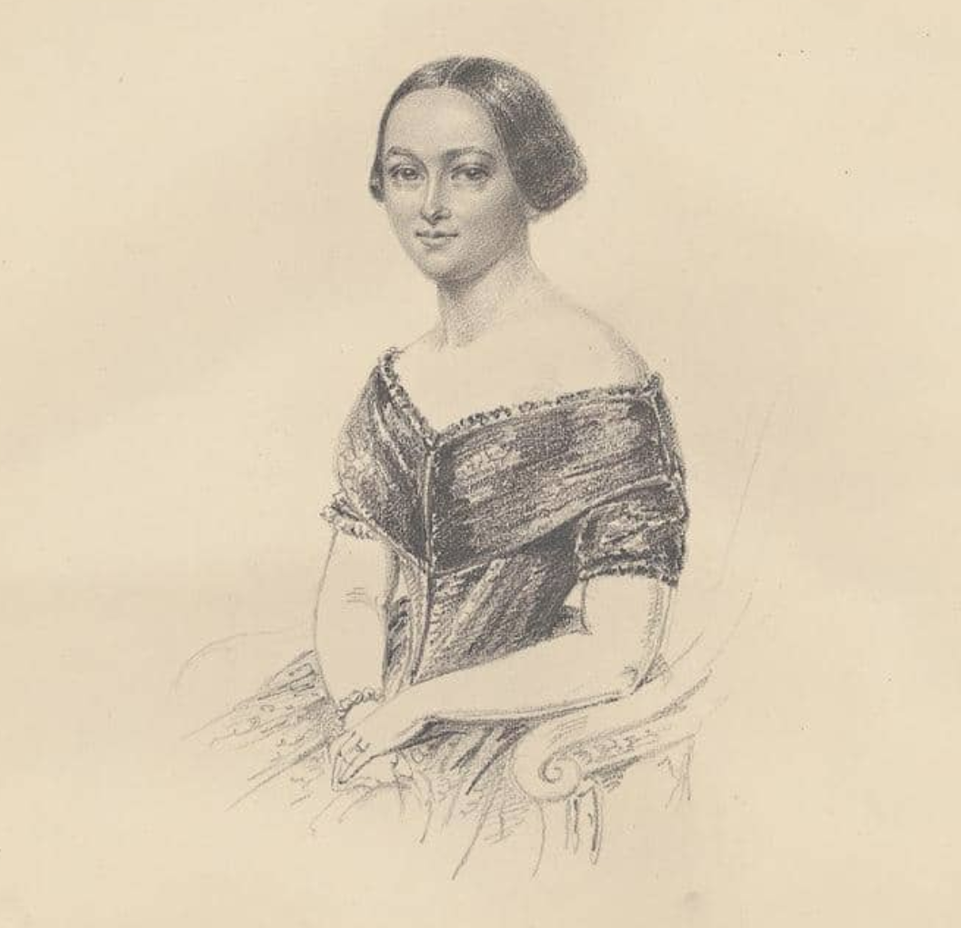 Lotten, Baroness von Düben of Kägleholm, née Tersmeden